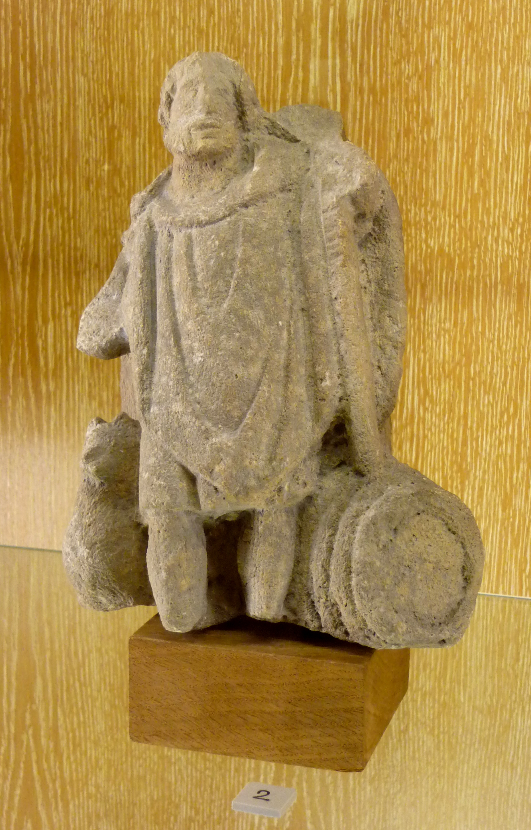 God with barrel ( Sucellus ? ), Gallo-roman statue from Mâlain, Dijon archeological museum, France